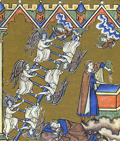 Jacob's vision of a ladder to heaven.